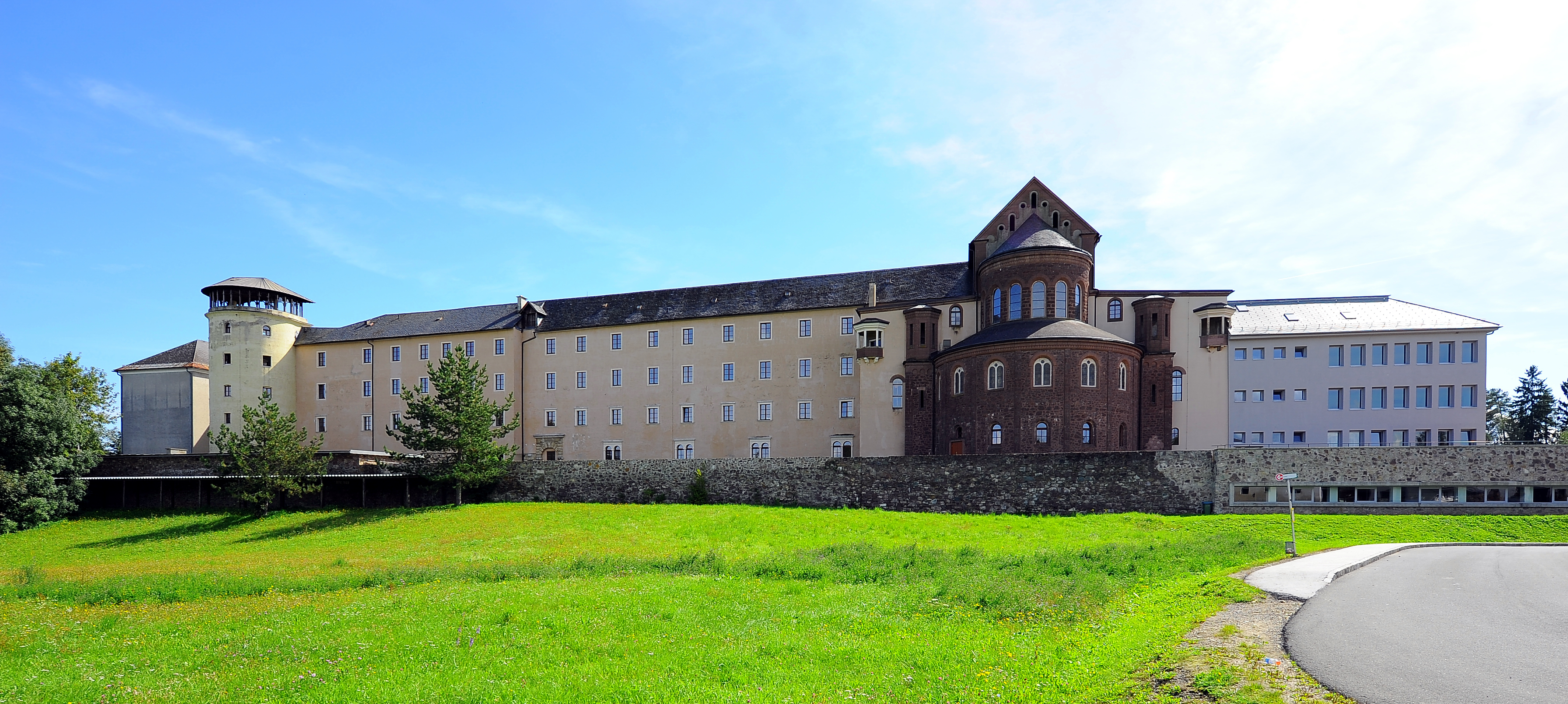 West view at the castle Tanzenberg, municipality Sankt Veit an der Glan, district Sankt Veit an der Glan, Carinthia, Austria, EU